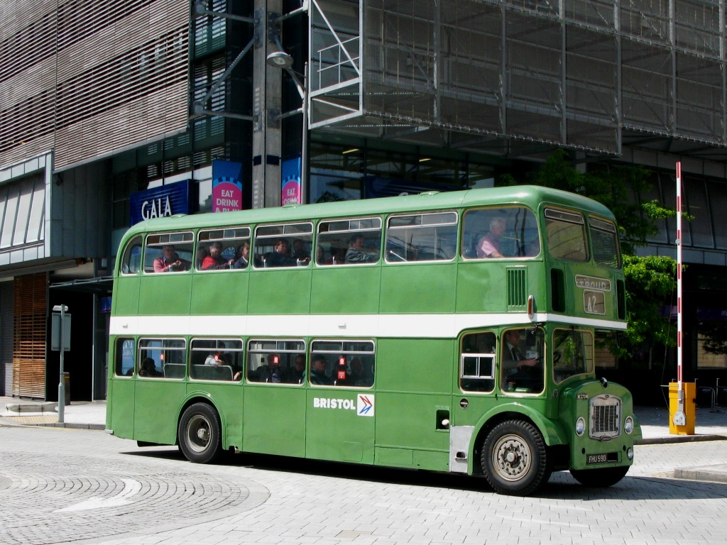 A preserved Bristol FLF bus (registration FHU 59D; Bristol omnibus fleet number C7246) at Canons Marsh, Bristol, during a bus enthusiasts' event.